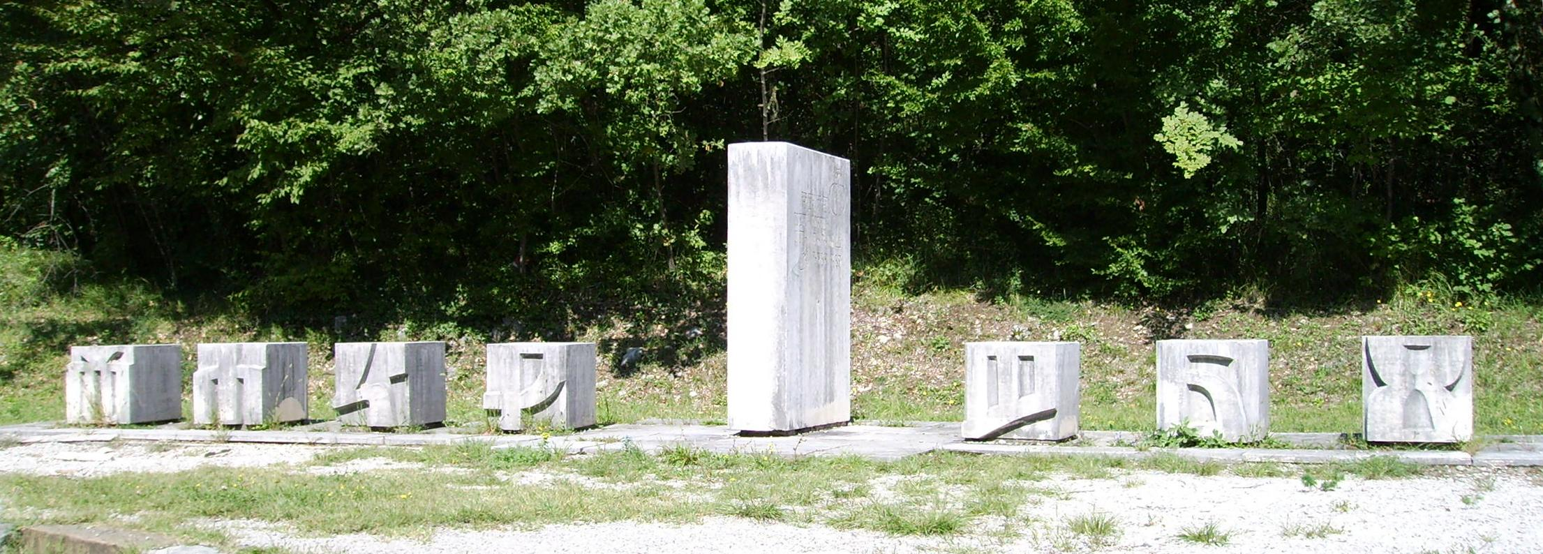 Resting place of Zakan Juri at the Glagolitic Avenue near Hum, Croatia